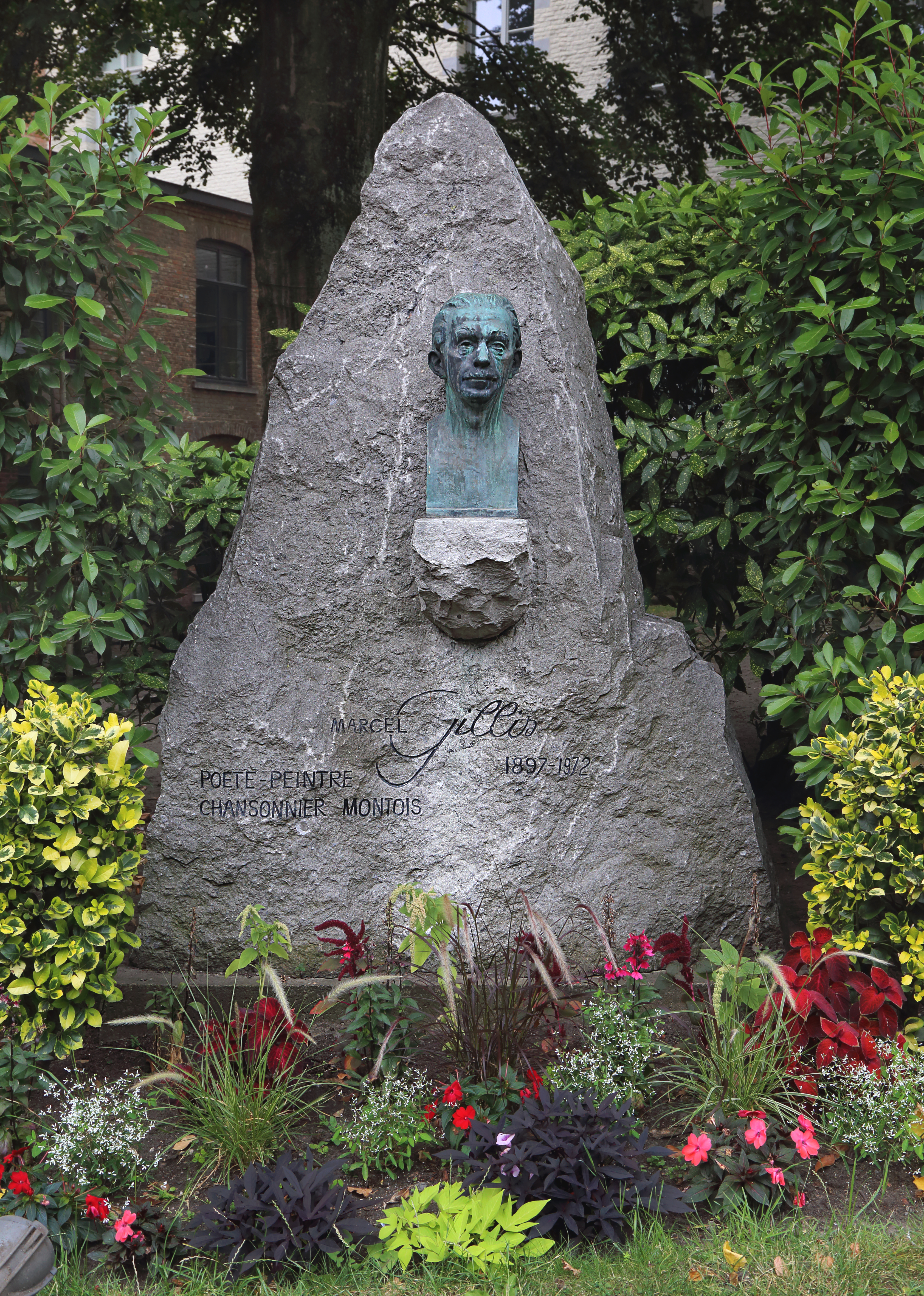 Monument dedicated to Marcel Gillis in the jardin du maïeur in Mons, Belgium.